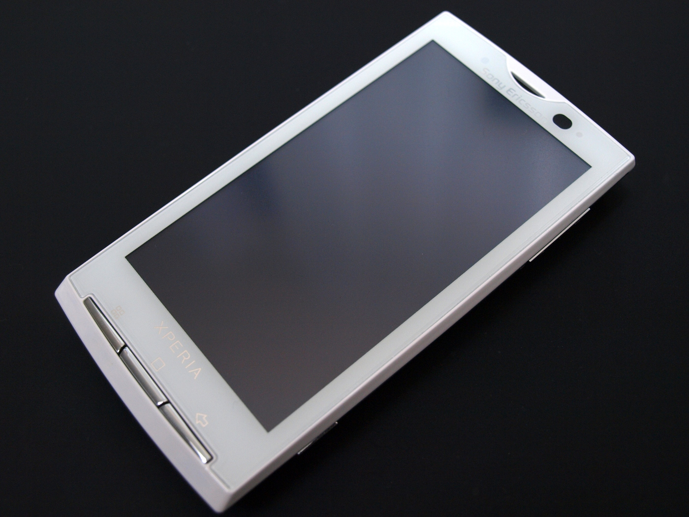 NTTdocomo/ SonyEricsson Xperia(SO-01B)